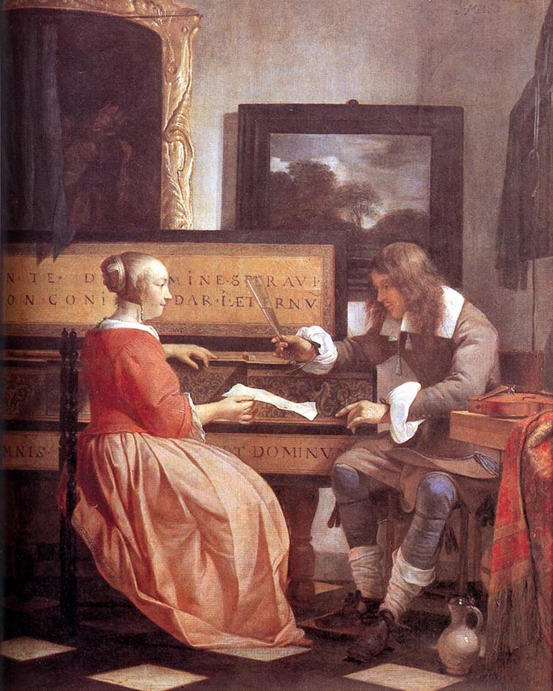 Man and Woman Sitting at the Virginal